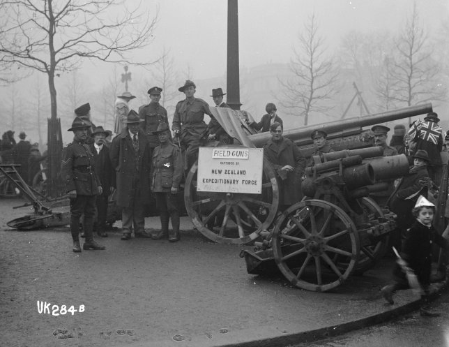 Photographer: Thomas Frederick Scales Field guns captured by New Zealanders in World War I on display in London, 1918 Dry plate glass negative Reference No. 1/2-014087-G Royal New Zealand Returned and Services' Association Collection, Alexander Turnbull Library, National Library of New Zealand Find out more about this image from the Alexander Turnbull Library.